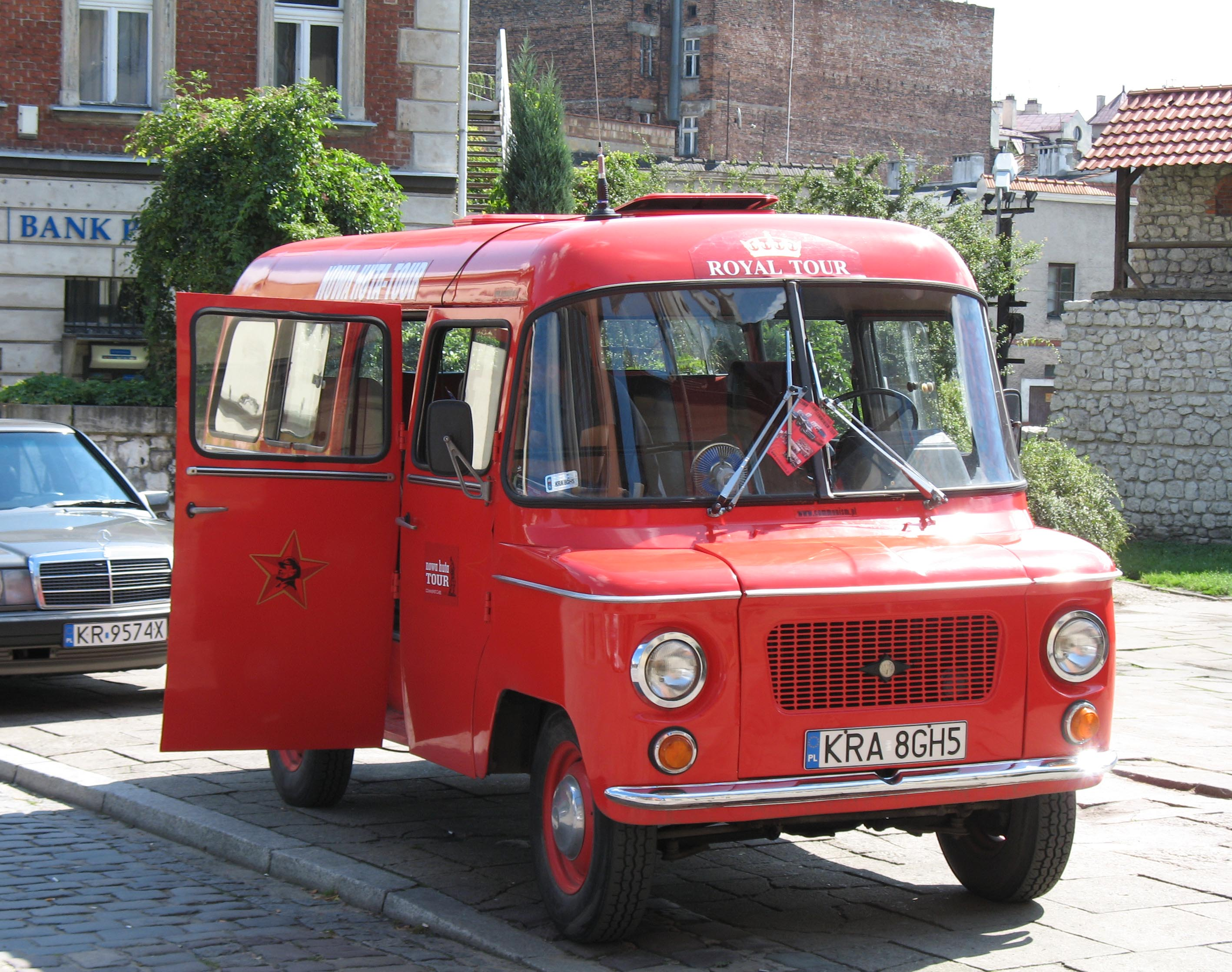 Nysa 522 in Kraków, Poland. Szeroka street.